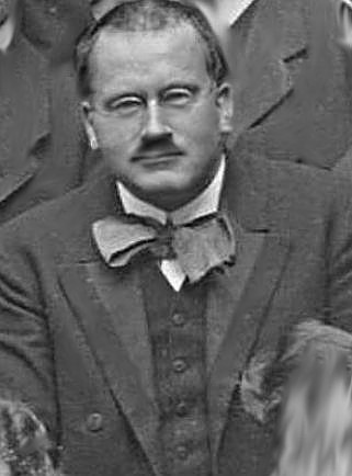 Carl Jung, from File:Psychoanalitic Congress.jpg